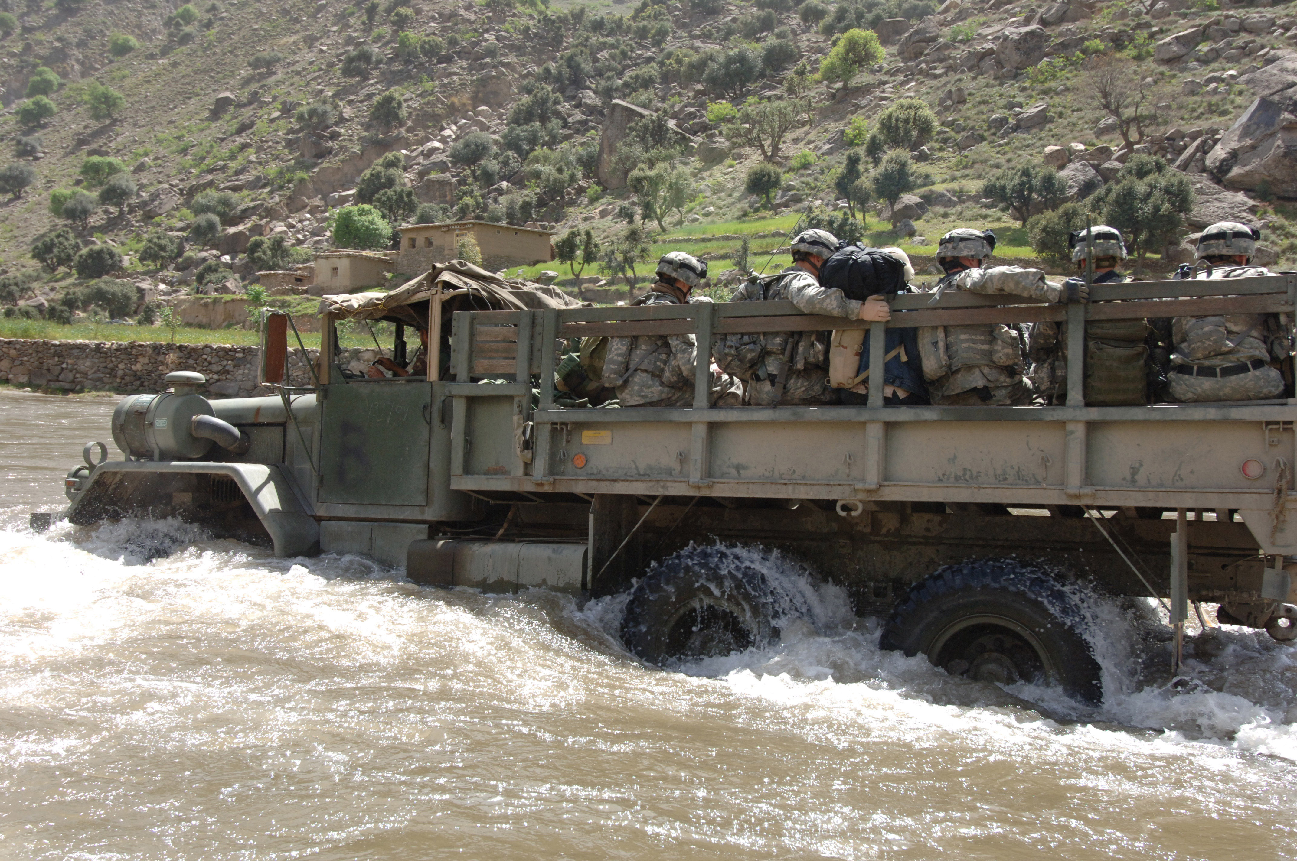 A truck full of U.S. Army soldiers fords the Pech River in Pech Valley, Afghanistan, during operations on April 9, 2006. The soldiers are attached to Charlie Company, 1st Battalion, 32nd Infantry Regiment.